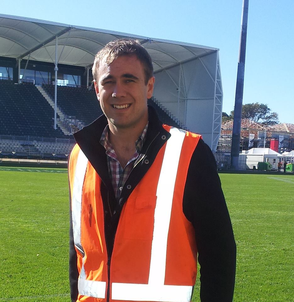 Deon Swiggs at the new AMI Stadium